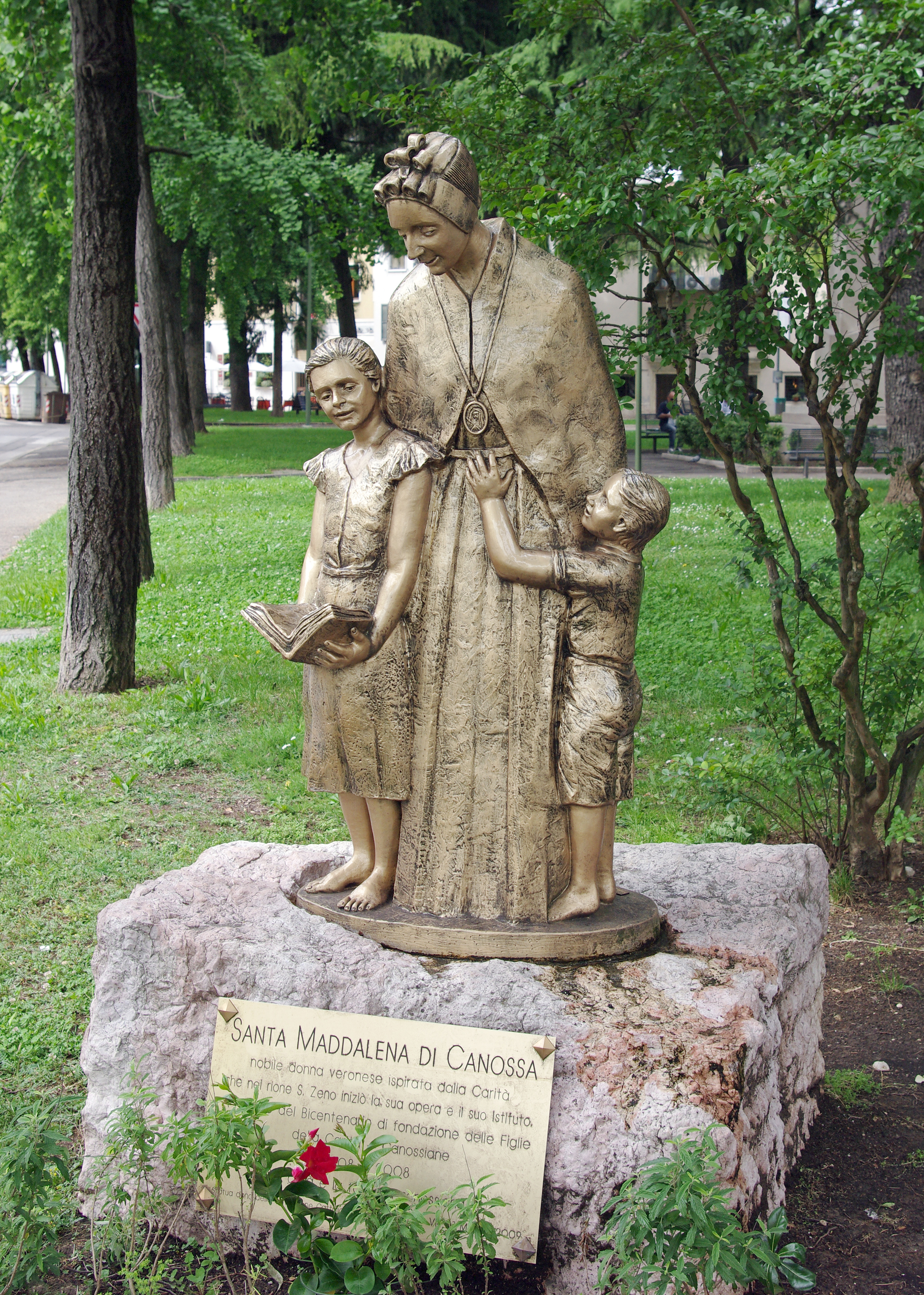 Monument of Saint Magdalene of Canossa in Verona